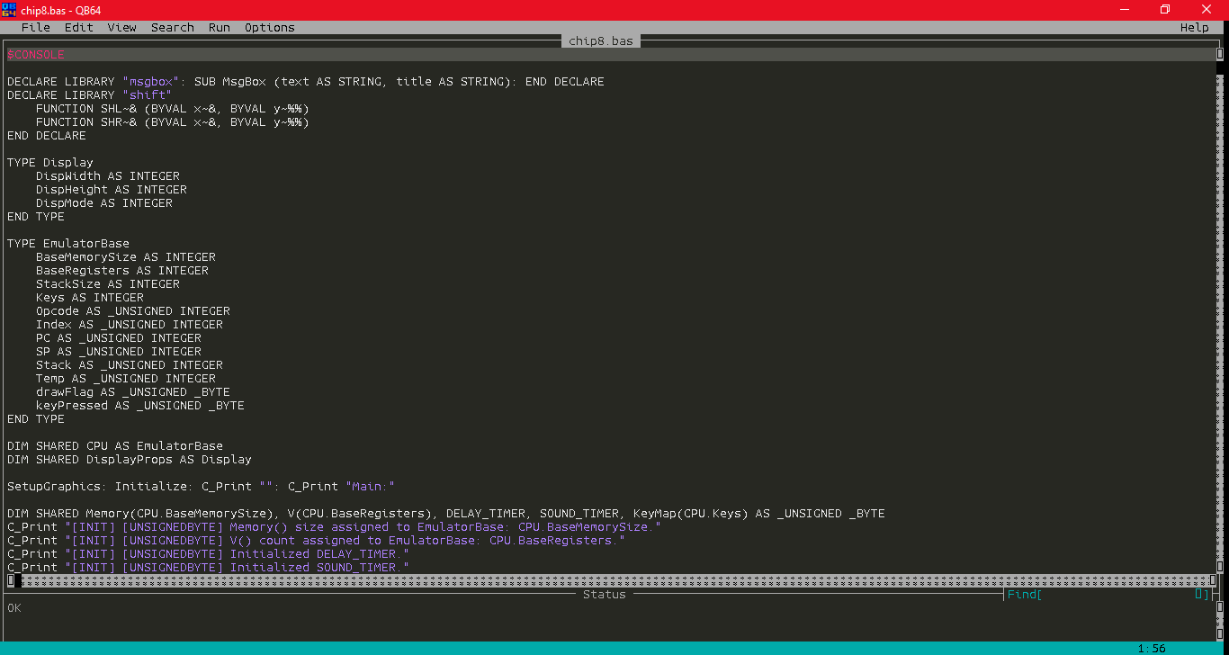 A screen capture of the QB64's IDE with a Chip8 Emulator being written to a file.